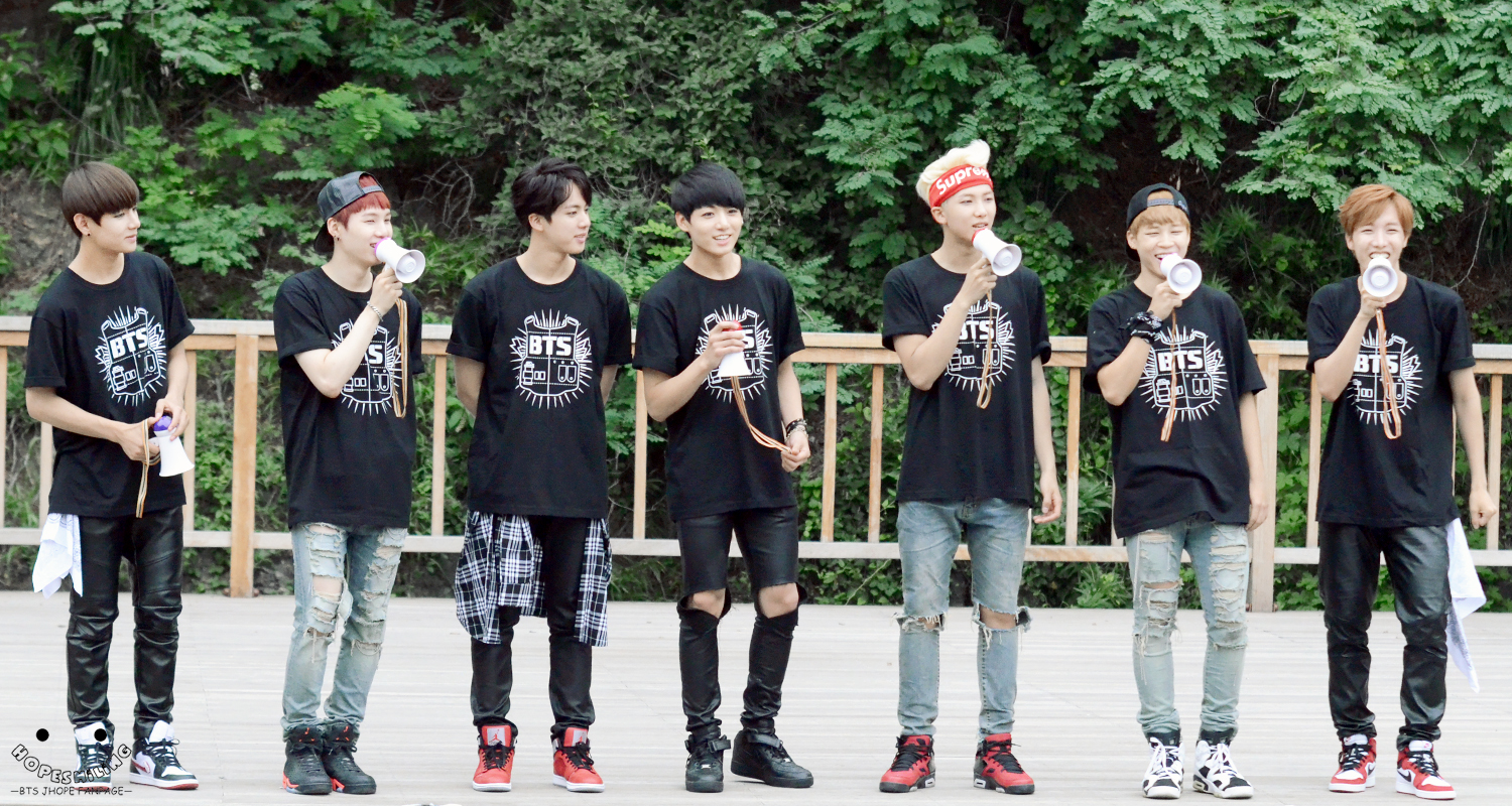 BTS (Bangtan Boys) members during a fan meeting on August 24, 2014. From left to right: V, Suga, Jin, Jungkook, Rap Monster, Jimin and J-Hope.